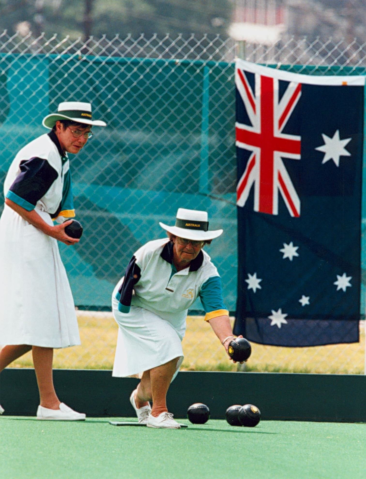 Australian lawn bowlers Pauline Cahill and June Clark at the 1996 Atlanta Paralympic Games. Cahill won bronze and Clark won silver in the Women's Singles LB3-5 event.